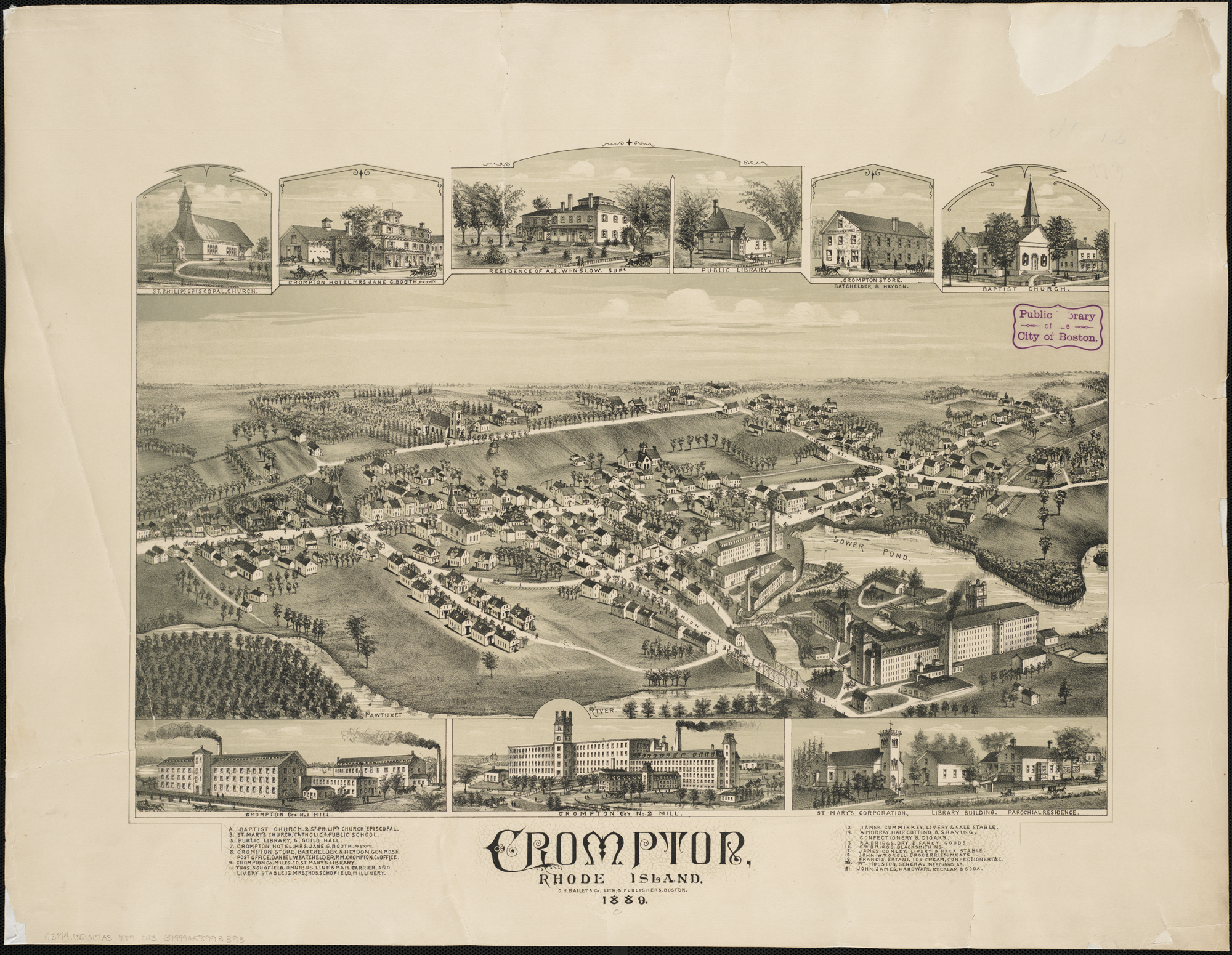 Zoom into this map at . Author: Bailey, O. H. Publisher: O.H. Bailey & Co. Date: 1889. Location: West Warwick (R.I.) Scale: Not drawn to scale Call Number: G3774.W5:2C7A3 1889.B3